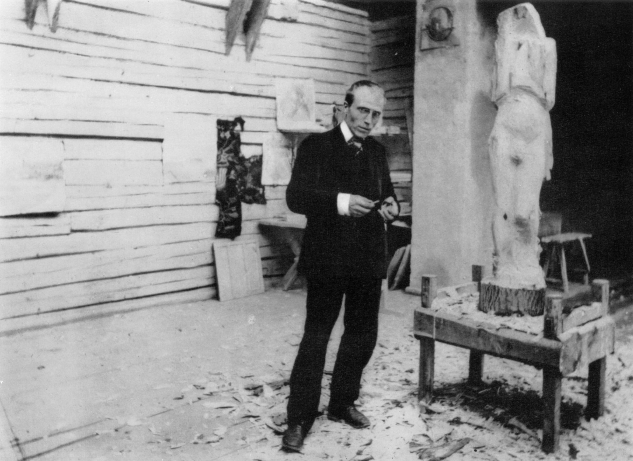 A. Matveev. Kikerino. Beginning of 1910 years.